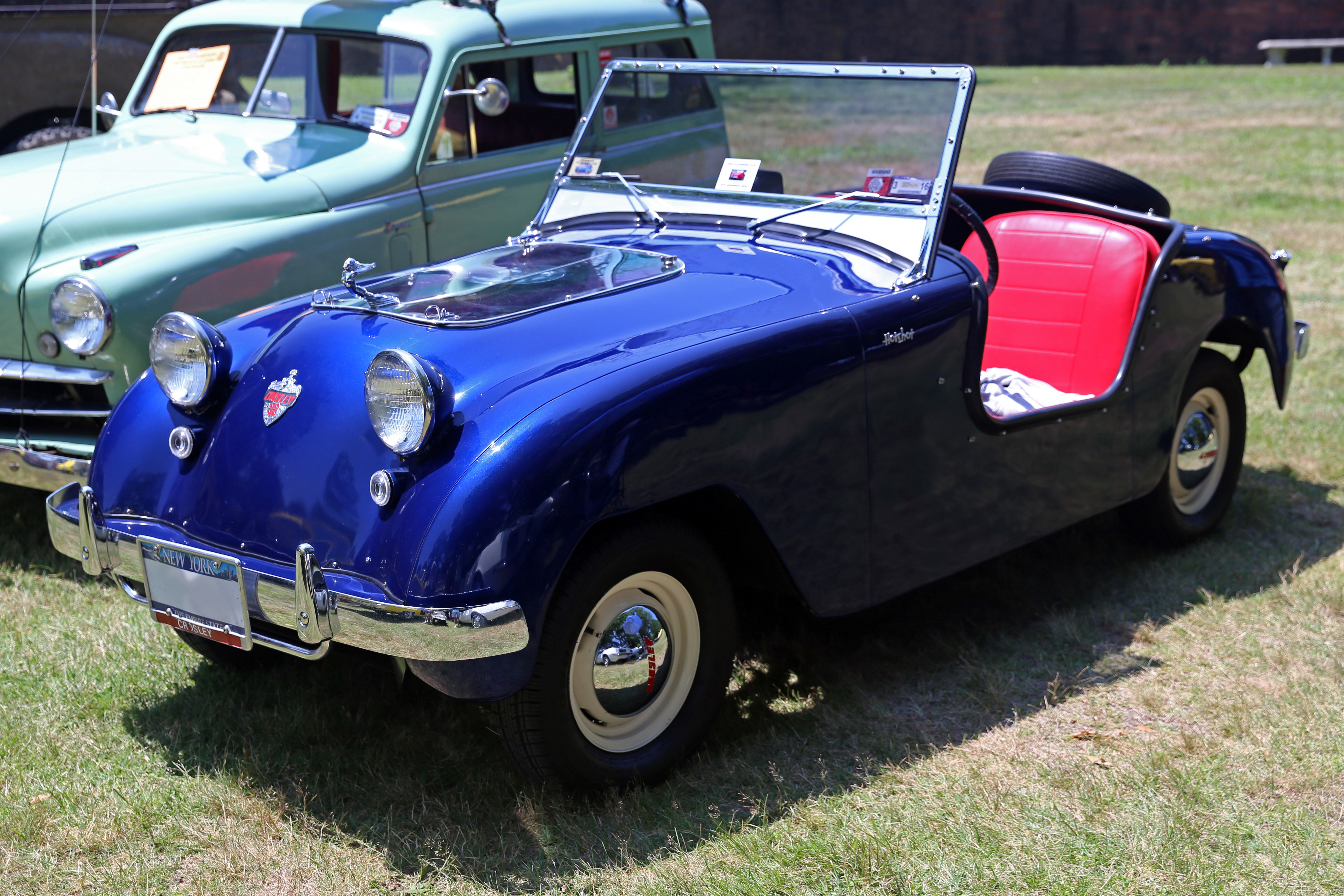 A 1950 Crosley Hotshot roadster.